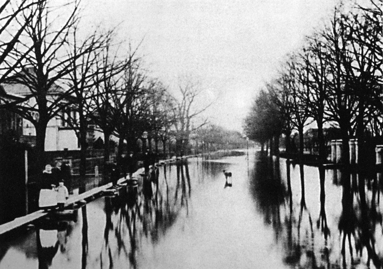 The flooded Schwachhauser Chaussee (today Schwachhauser Heerstraße) in Bremen in the year 1881. Looking from the railroad tracks connecting Bremen with Hannover towards the street Hollerallee.